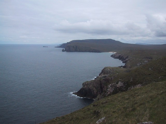 Cliffs East of Cape Wrath